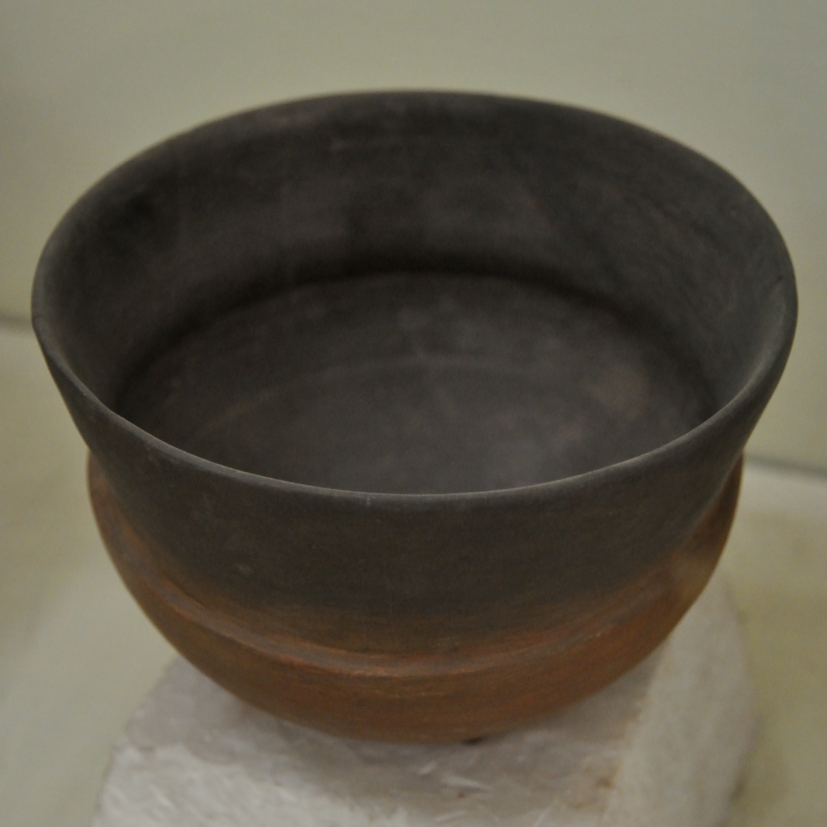 This artefact resides at the Government Museum, (hi: Rashtriya Sangrahalaya) formerly The Curzon Museum of Archaeology, Museum Road or Murari Lal Rajpal road, Dampier Nagar, Mathura, Uttar Pradesh, India. This museum is administrating by the State Government of Uttar Pradesh of India.